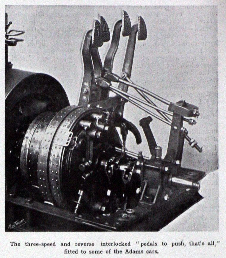 "Interlocked pedals" on 1907 Adams and Adams-Hewitt automobiles.